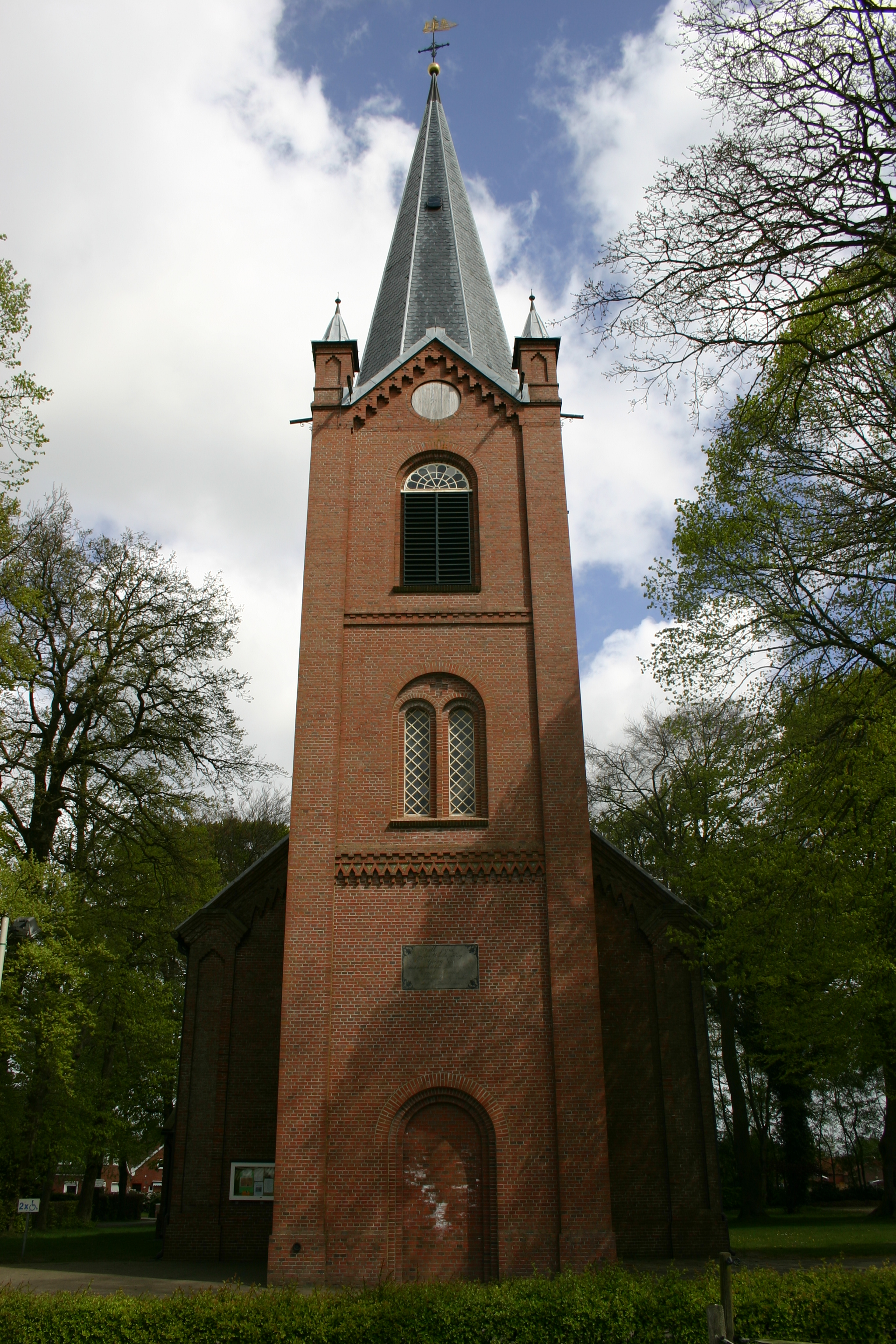 Historic church in Mittegroßefehn, district of Aurich, East Frisia, Germany